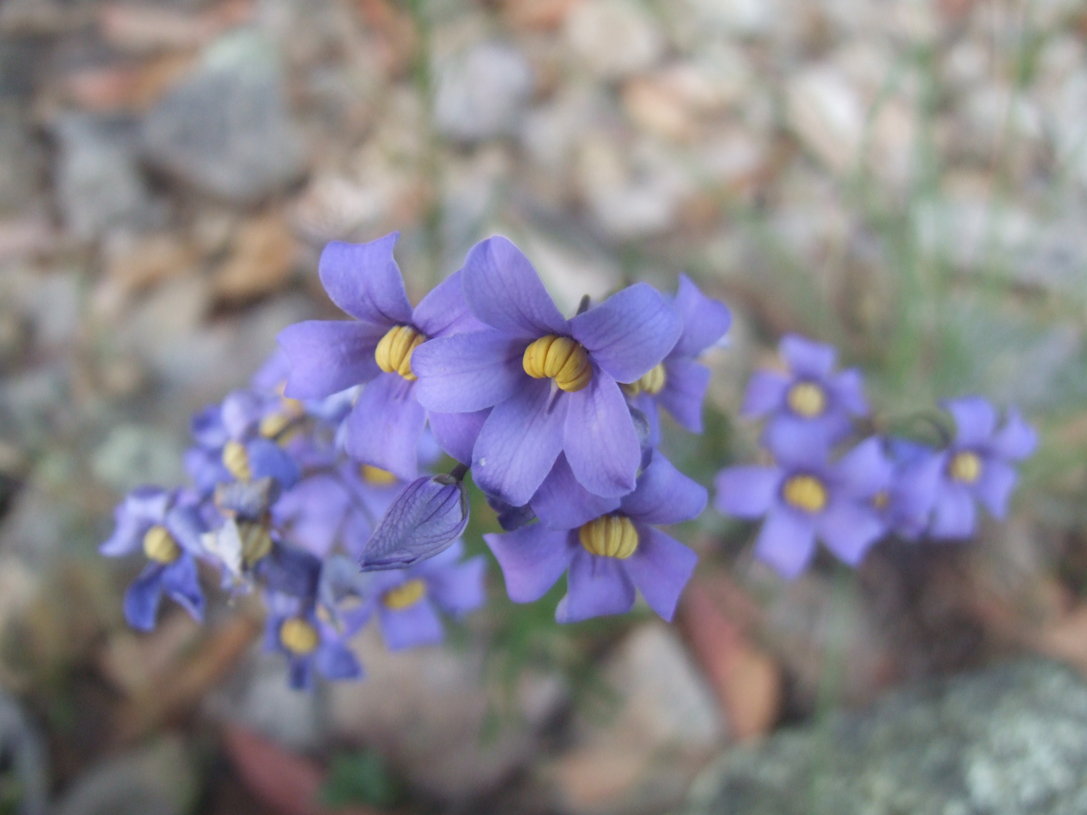 Australian plant, the Telford's Finger Flower (Cheiranthera telfordii)